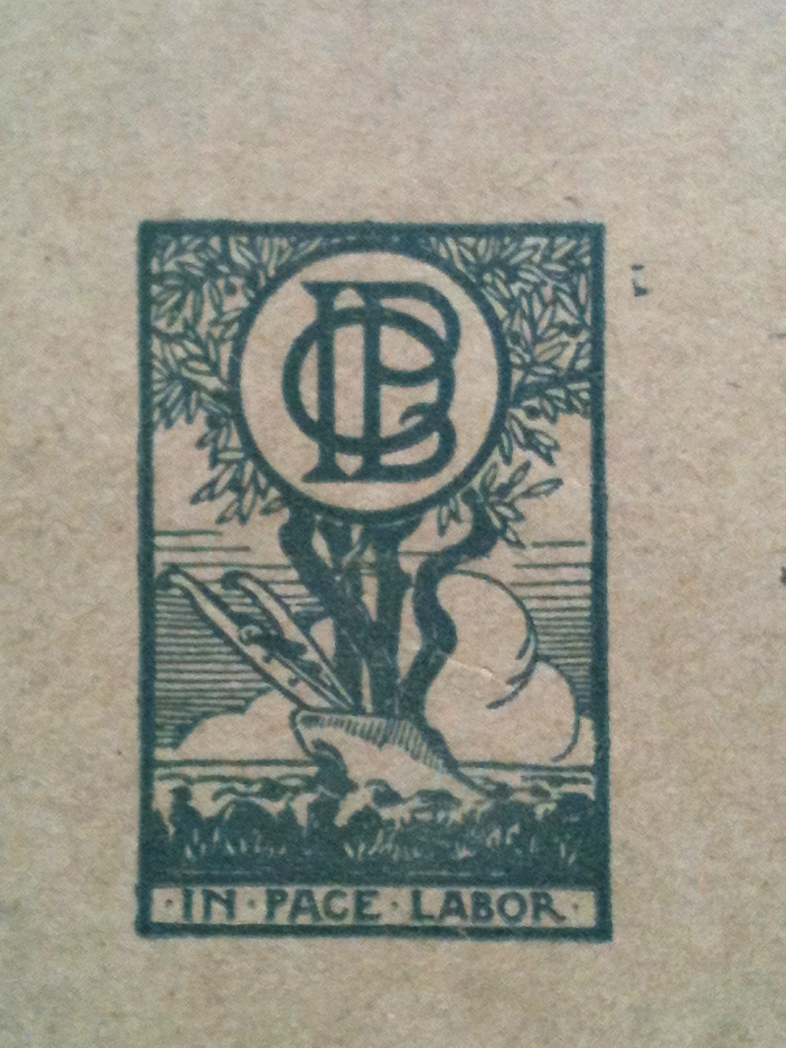 Book back page logo of Librairie Paul Ollendorff [LPO], Paris (France), during the 1910's, with latin motto in pace labor.